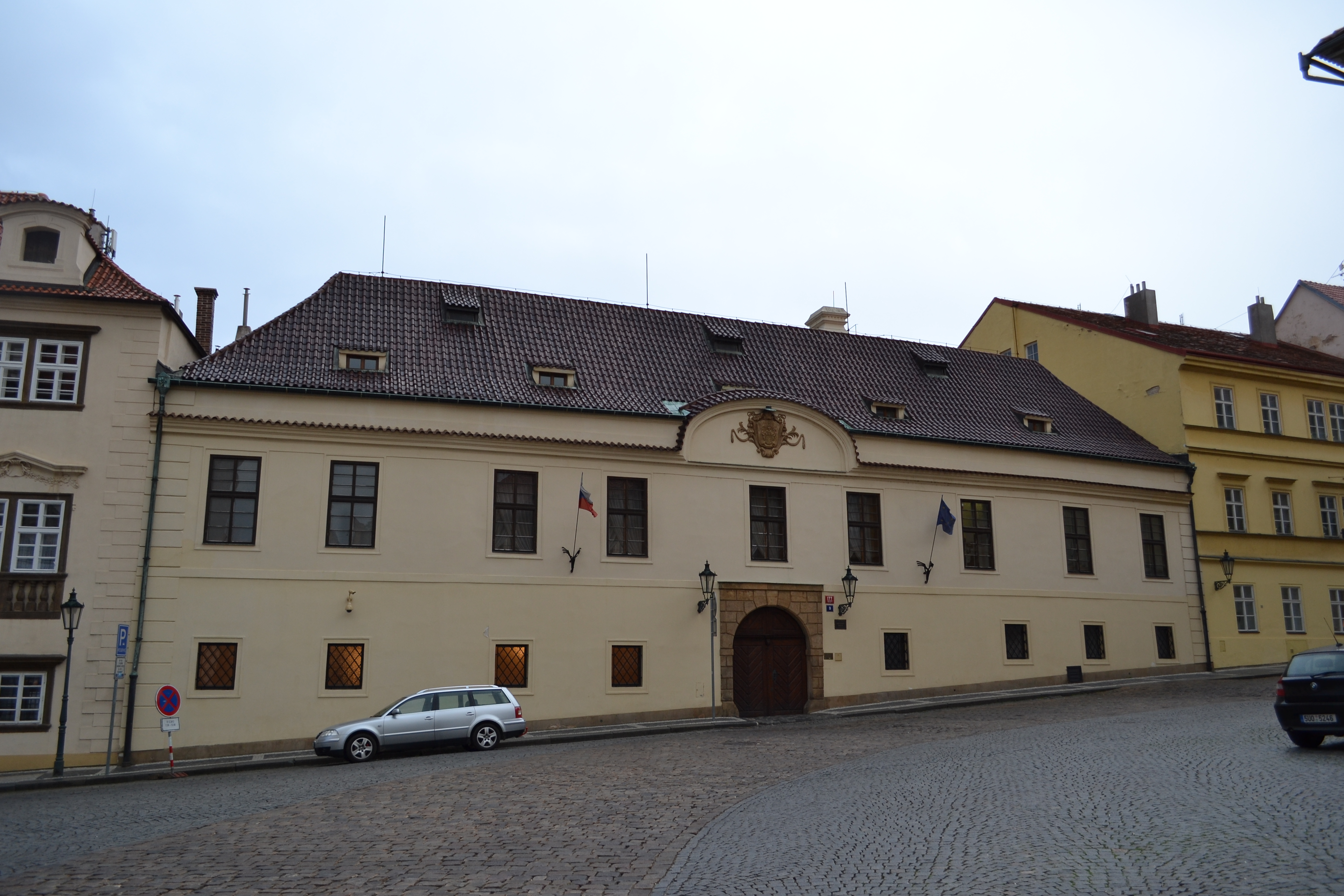 Hrzánský palace, Loretánská 9, Prague, Czech Republic